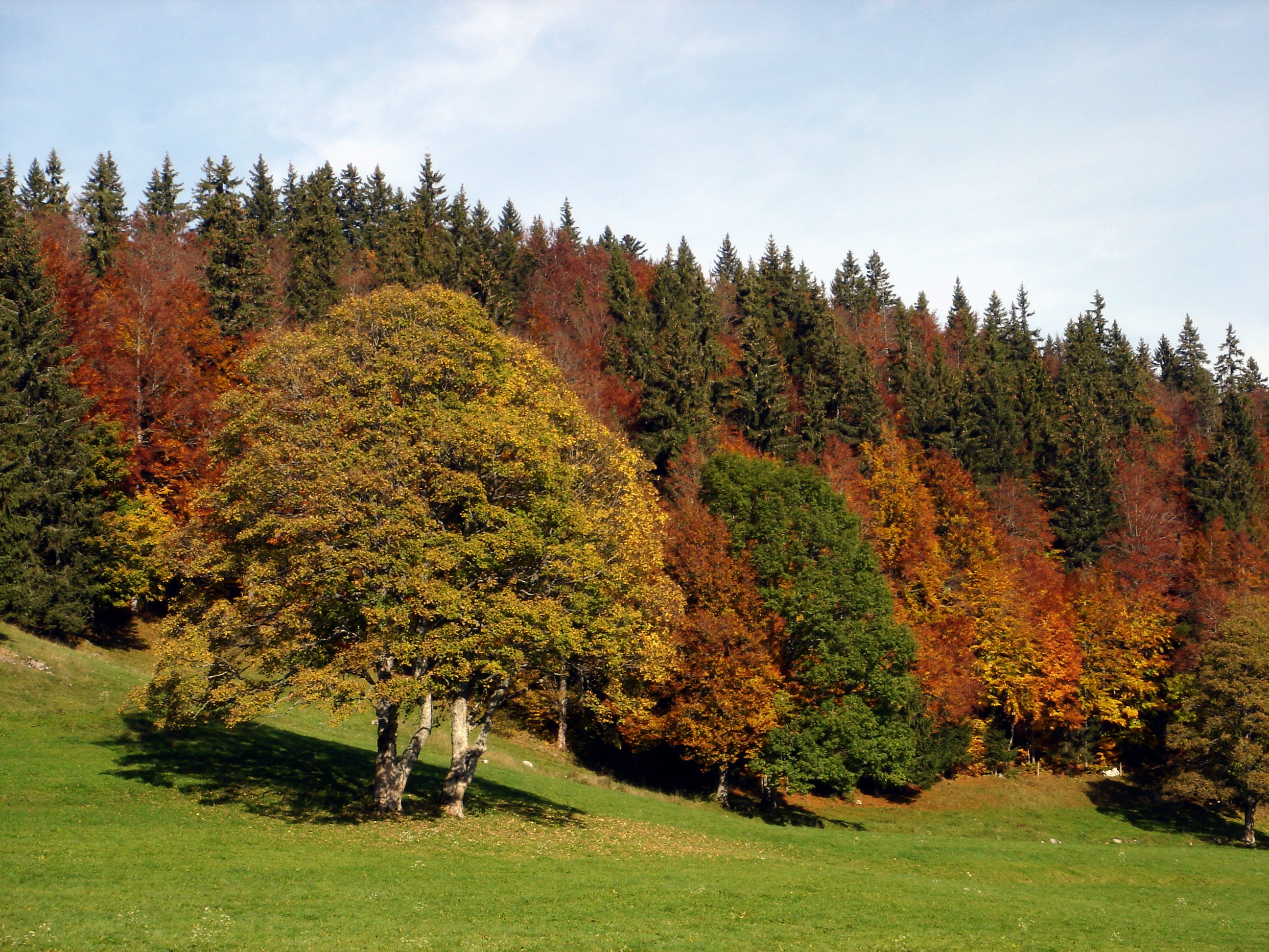 Autumn in the woods outside Le Sentier, part of the municipality of Le Chenit, Vaud, Switzerland